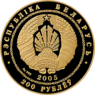 "Belarusian Ballet", Gold commemorative coins, denomination: 200 rubles